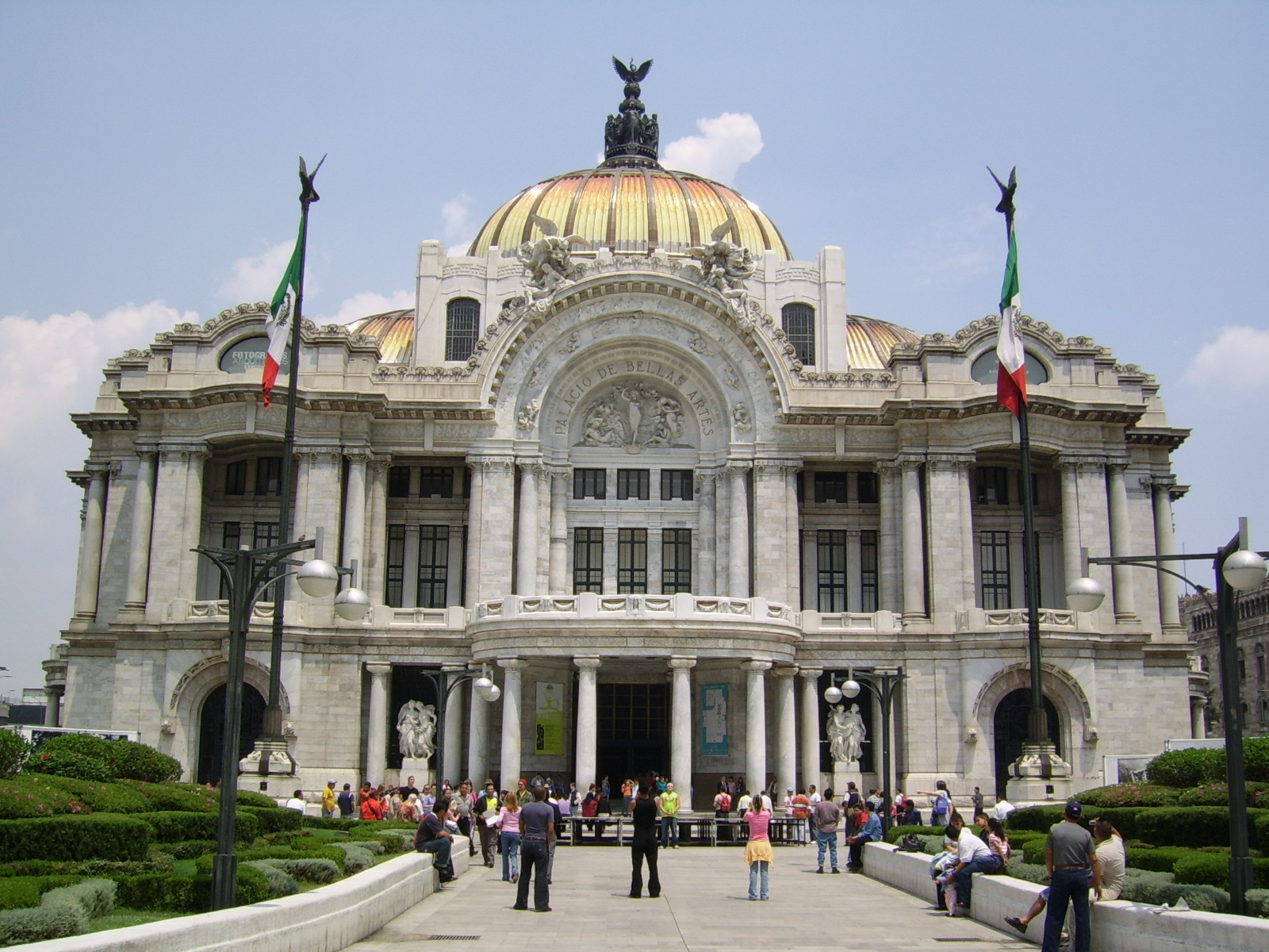 Palacio de Bellas Artes (Palace of the Fine Arts), downtown Mexico City.